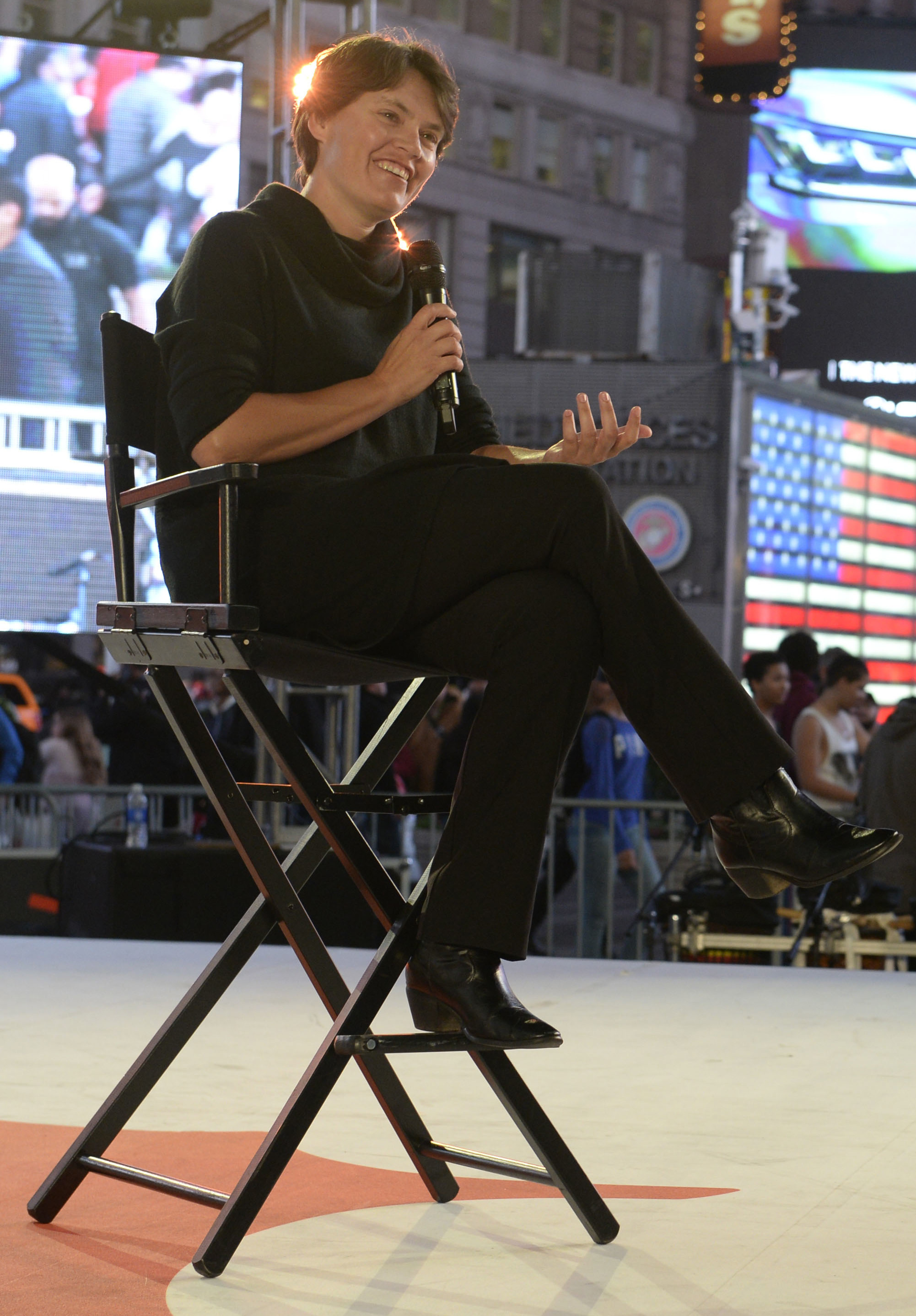 Save the Dream Ambassador Penny Heyns (left) - Double Olympic Gold & Olympic Bronze Medalist Swimmer at the Save the Dream in Times Square event, New York City on 3 November 2015.